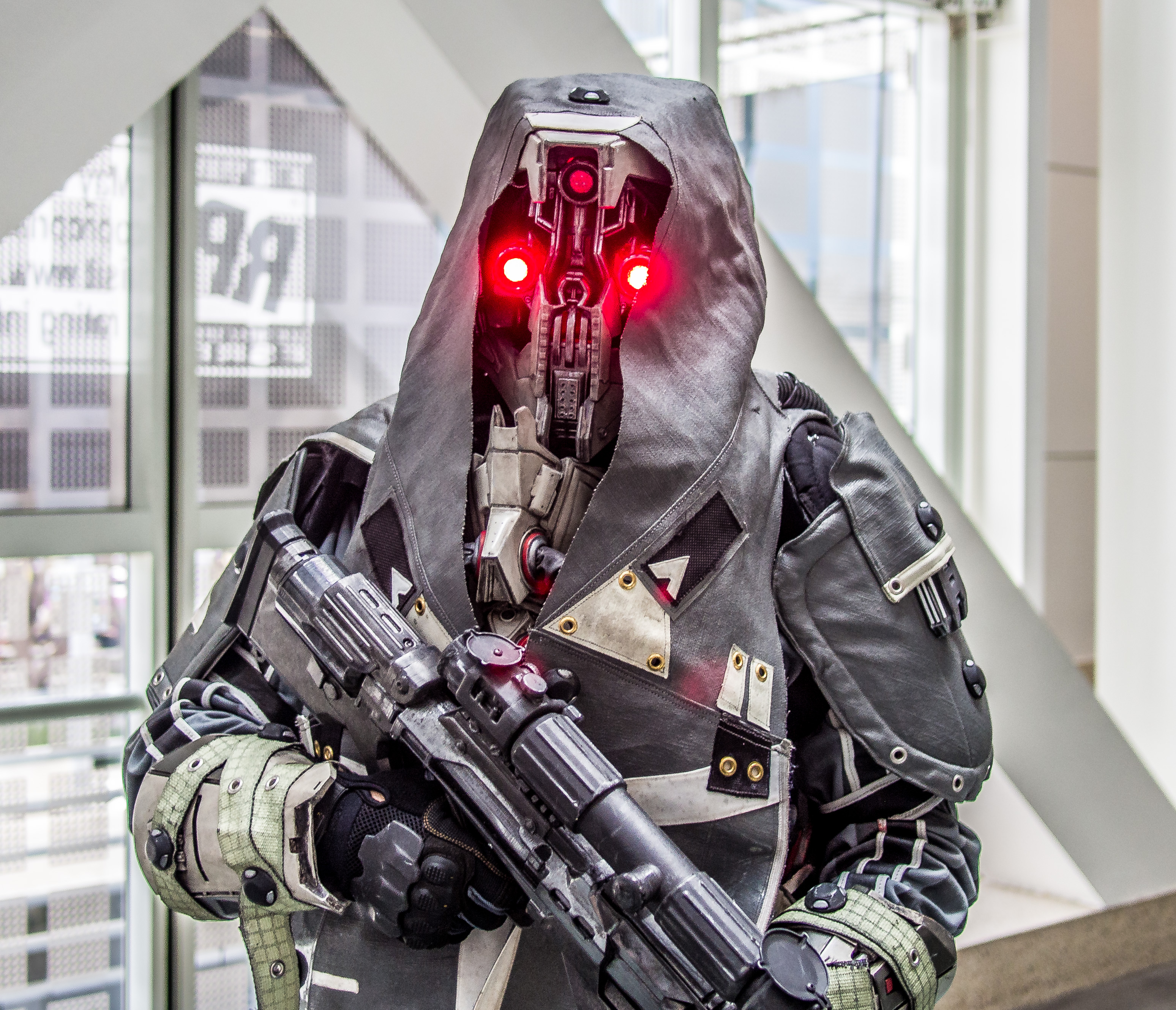 Taken on June 11, 2013 Los Angeles, California, US Olympus E-PL5